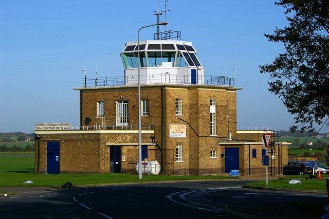 North Weald ATC. This is the Control Tower of North Weald Aerodrome. The goldfish bowl was a post war addition to the typical 1940’s design. North Weald had an illustrious career as a Military base from 1916 when it was known as North Weald Basset. It was developed as a Sector Station and played a key role in the Battle of Britain. It continued in use well into the “jet age” finally passing to civilian use in 1964.